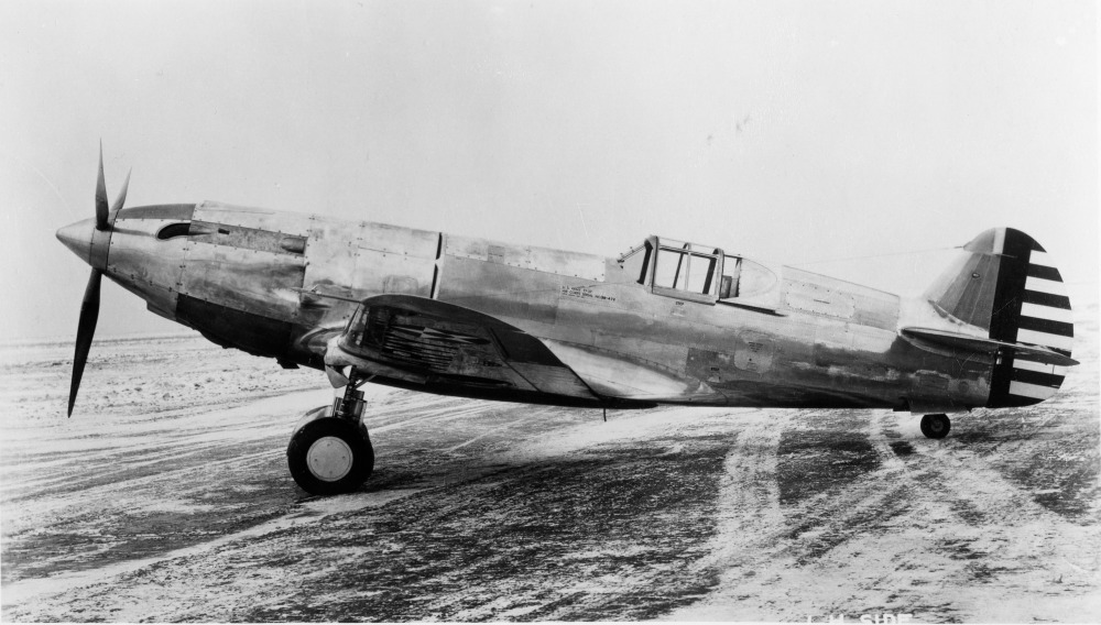 PictionID:40972760 - Title:Curtiss YP-37 - Catalog:15_002765 - Filename:15_002765.tif - Image from the Charles Daniels Photo Collection album "US Army Aircraft."----PLEASE TAG this image with any information you know about it, so that we can permanently store this data with the original image file in our Digital Asset Management System.----SOURCE INSTITUTION: San Diego Air and Space Museum Archive